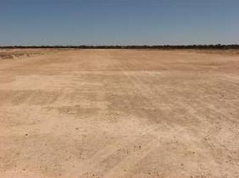 An airport landing strip in Badhan, Somalia.